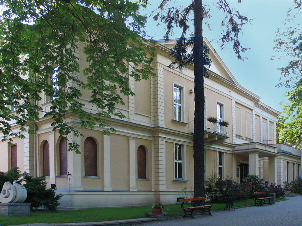 Oskar Kon's Palace; today National Film School in Lodz